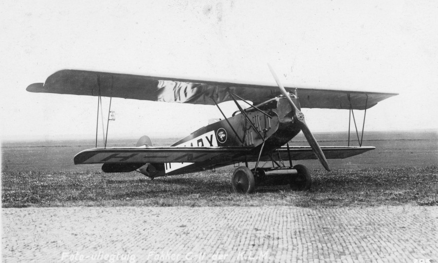 PictionID:56240902 - Catalog:AL253_000074.tif - Title:Fokker C.II H-NABX - Filename:AL253_000074.tif - Image from Album 253 which belonged to Franz Schell-----Please Tag these images so that the information can be permanently stored with the digital file.---Repository: San Diego Air and Space Museum